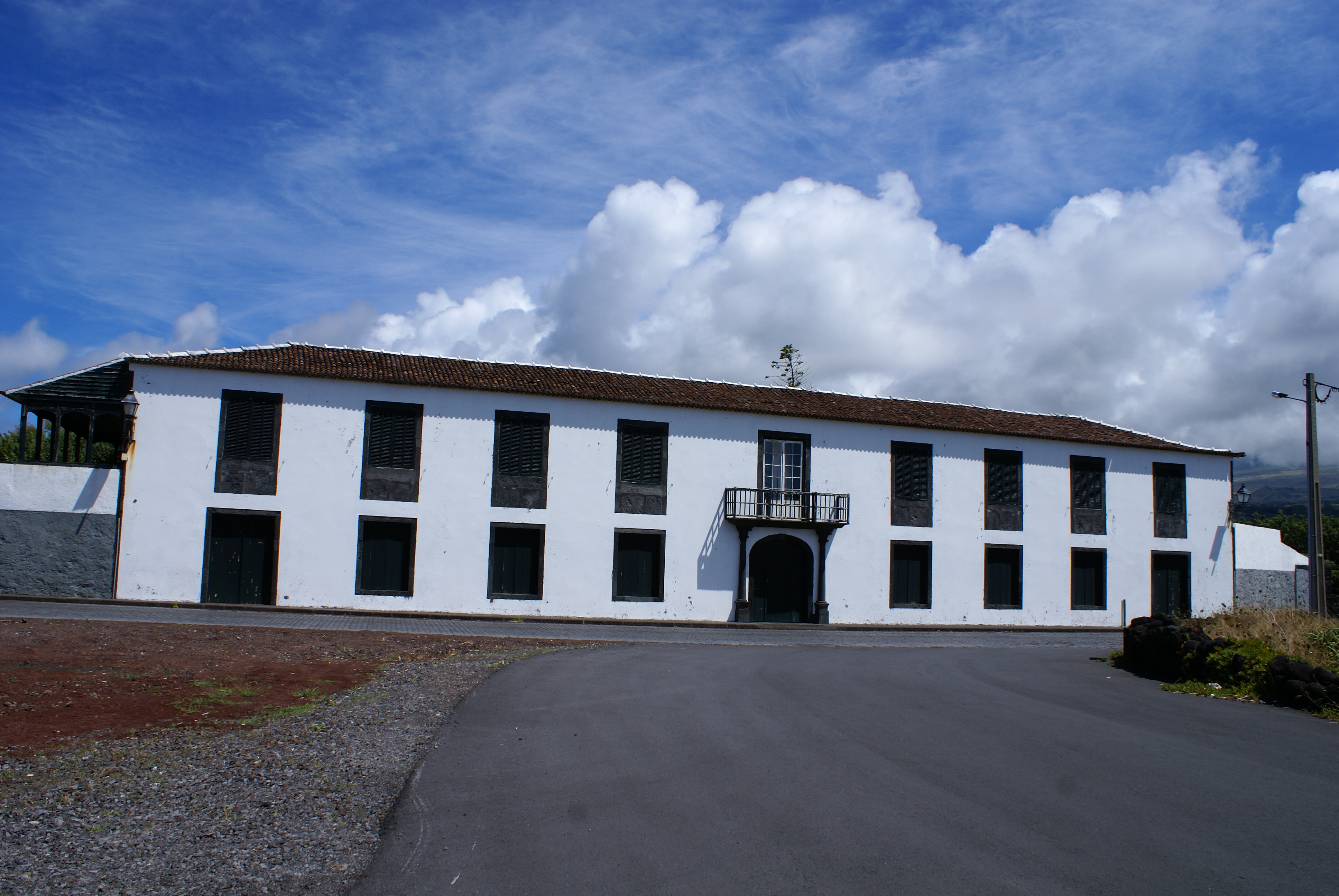 Solar dos Salemas, concelho da Madalena do Pico, ilha do Pico, arquipélago dos Açores, Portugal